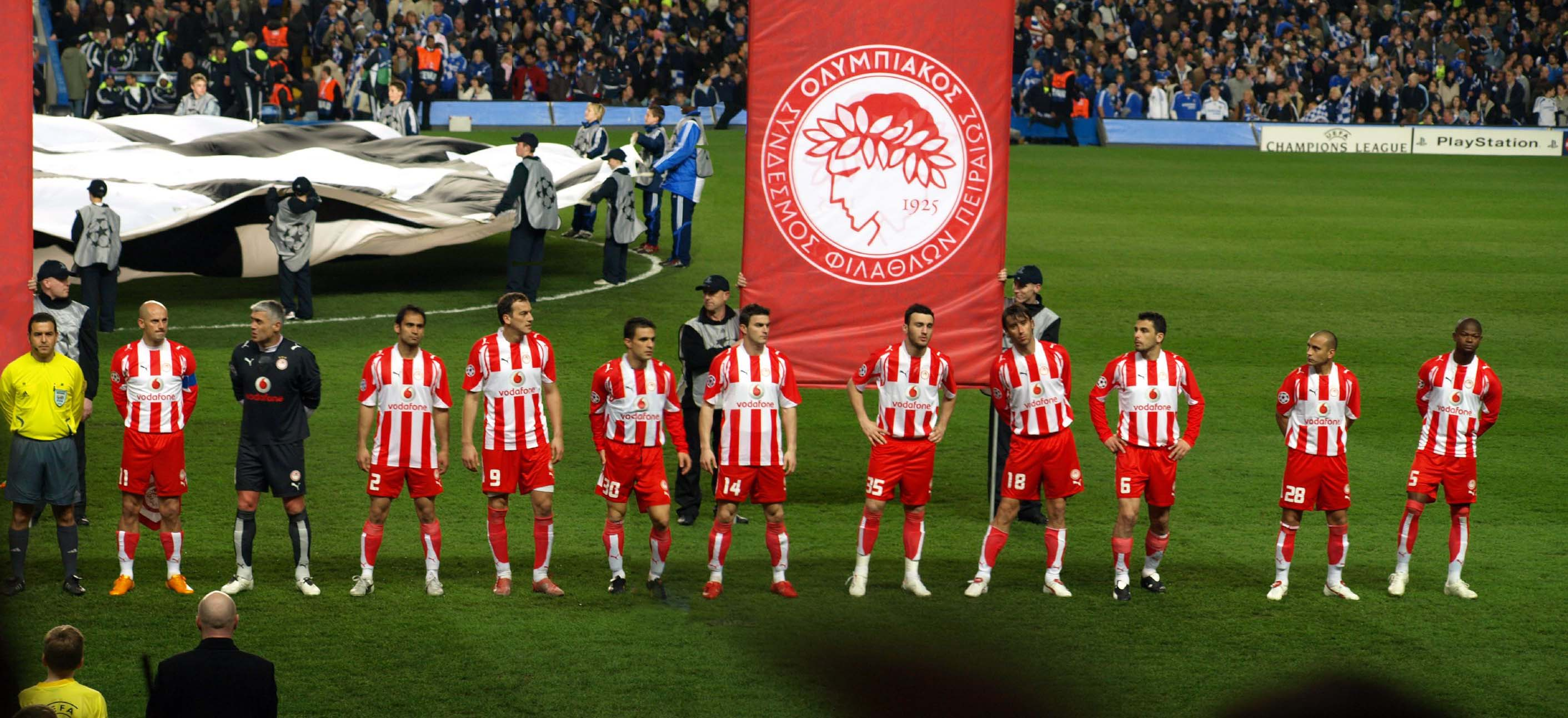 Merged images Image:Chelsea Olympiakos CL07-08 04.jpg and Image:Chelsea Olympiakos CL07-08 05.jpg using Adobe Photoshop